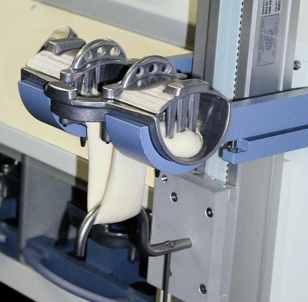 Stretching test of dough in an Extensograph